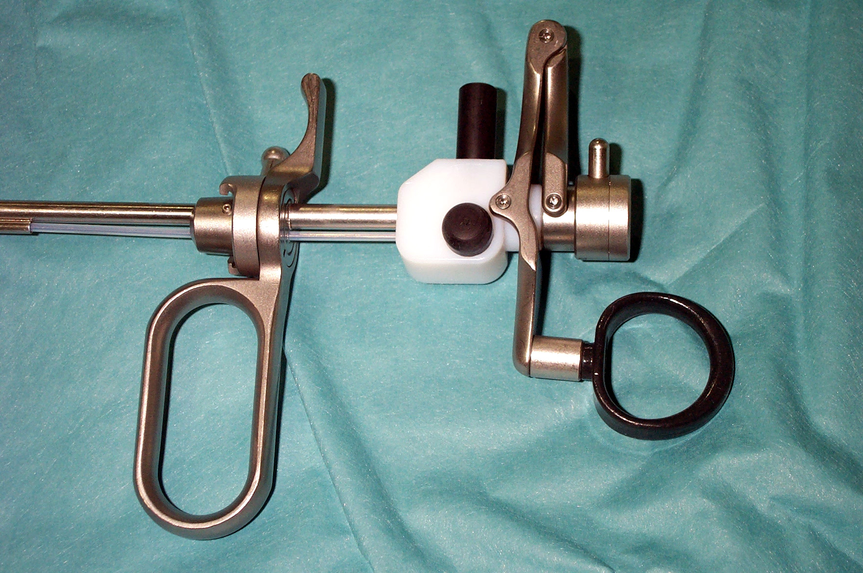 a working element of a resectoscope - used in transurethral resection